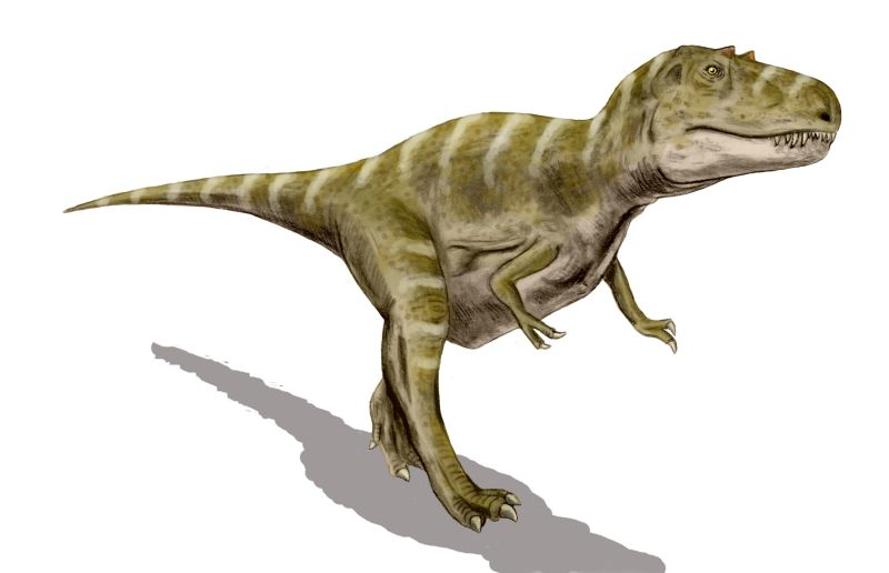 Gorgosaurus libratus, a theropod from the late Cretaceous of North America, pencil drawing & digital coloring